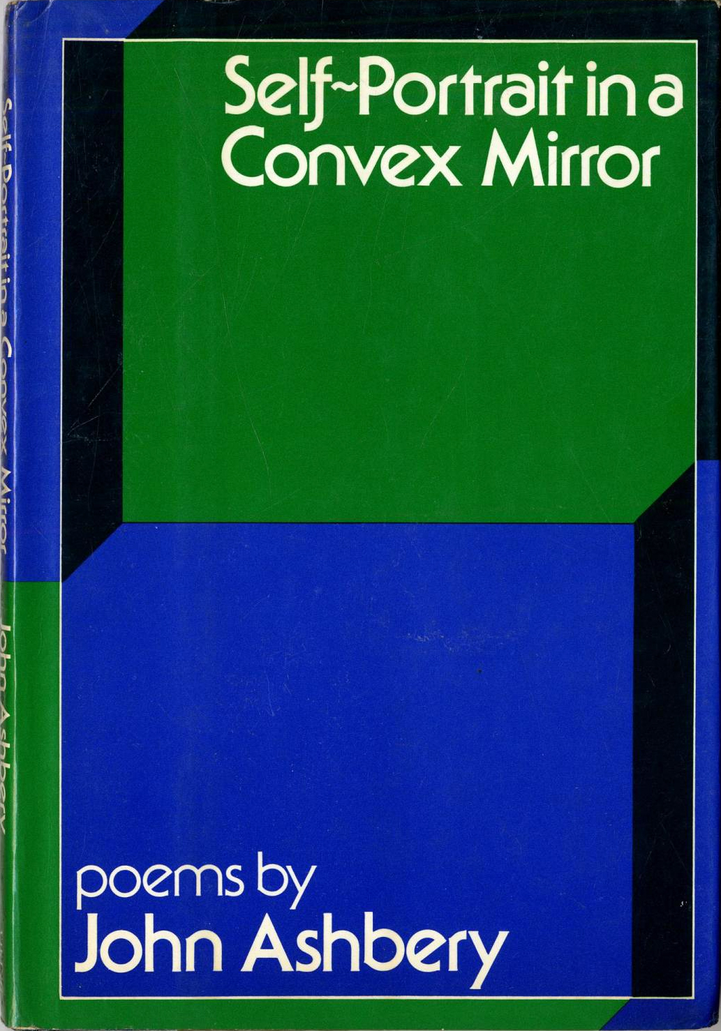 First-edition cover of Self-portrait in a Convex Mirror (1975) by the American poet John Ashbery